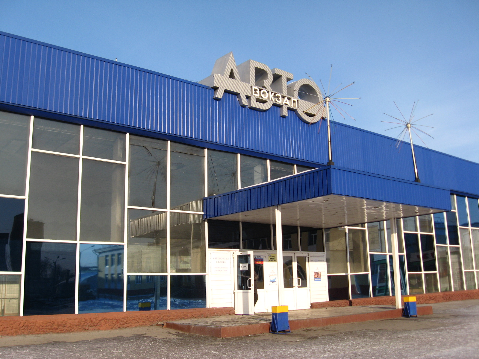 The bus station in Belovo Kemerovo region (1975-2012). Demolished (because of roof collapse 2 September 2012).